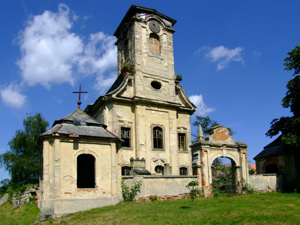 Church, Brenna, Czech Republic